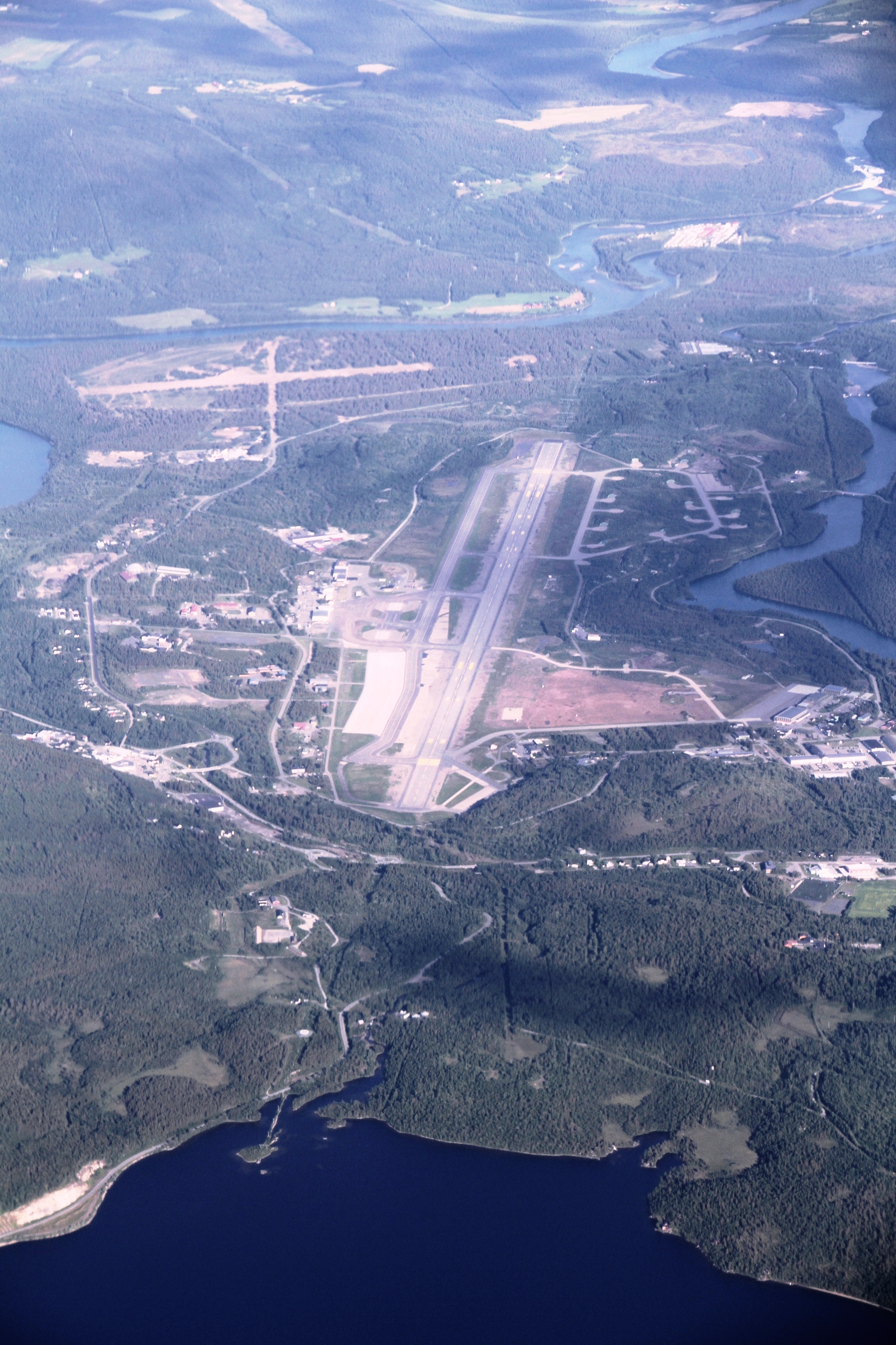 Bardufoss airport and the Andselv town, centre of the municipality of Målselv, Troms (north Norway)